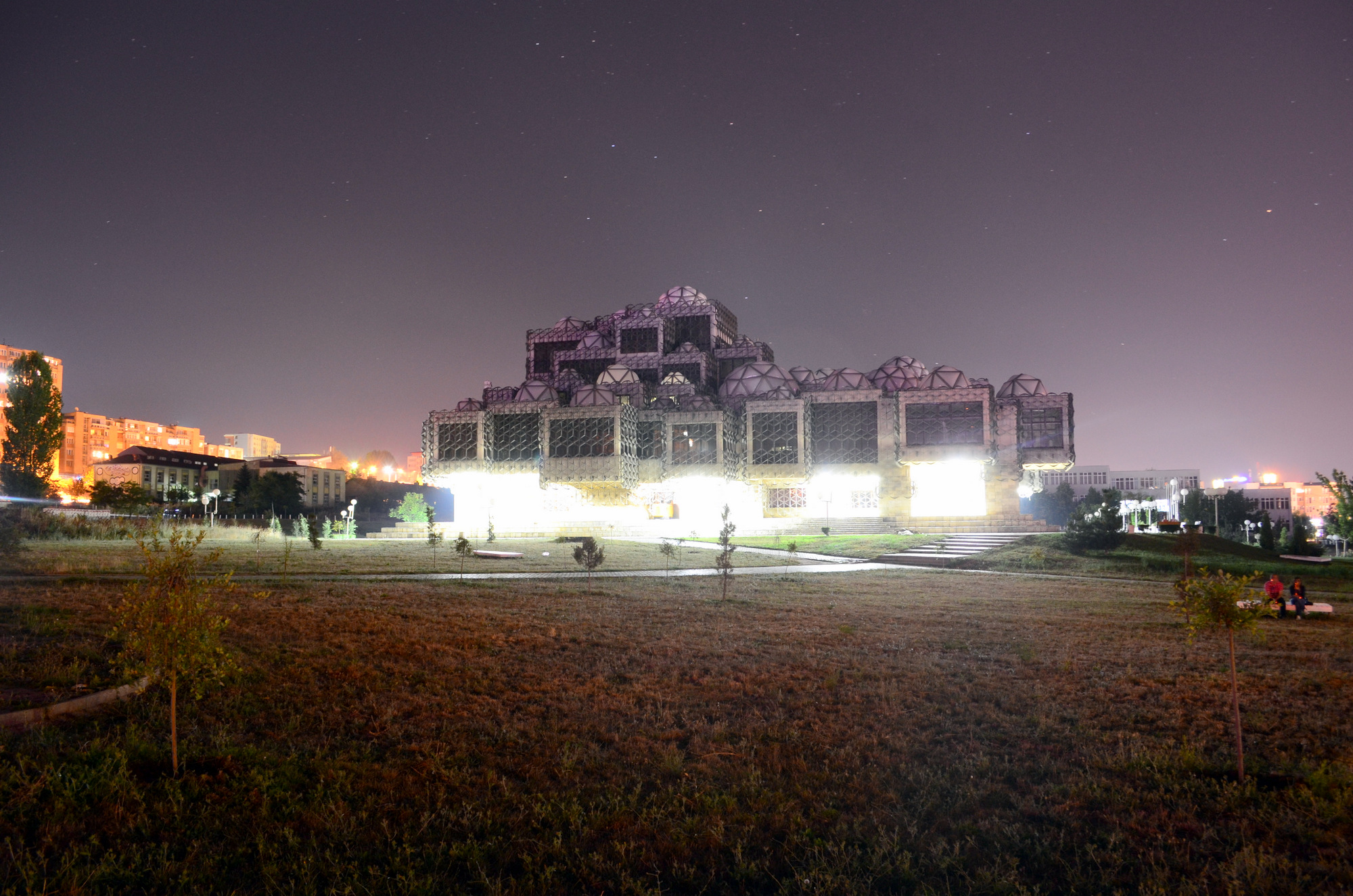 A night-time view of the National and University Library of Kosovo, in Prishtina, Kosovo